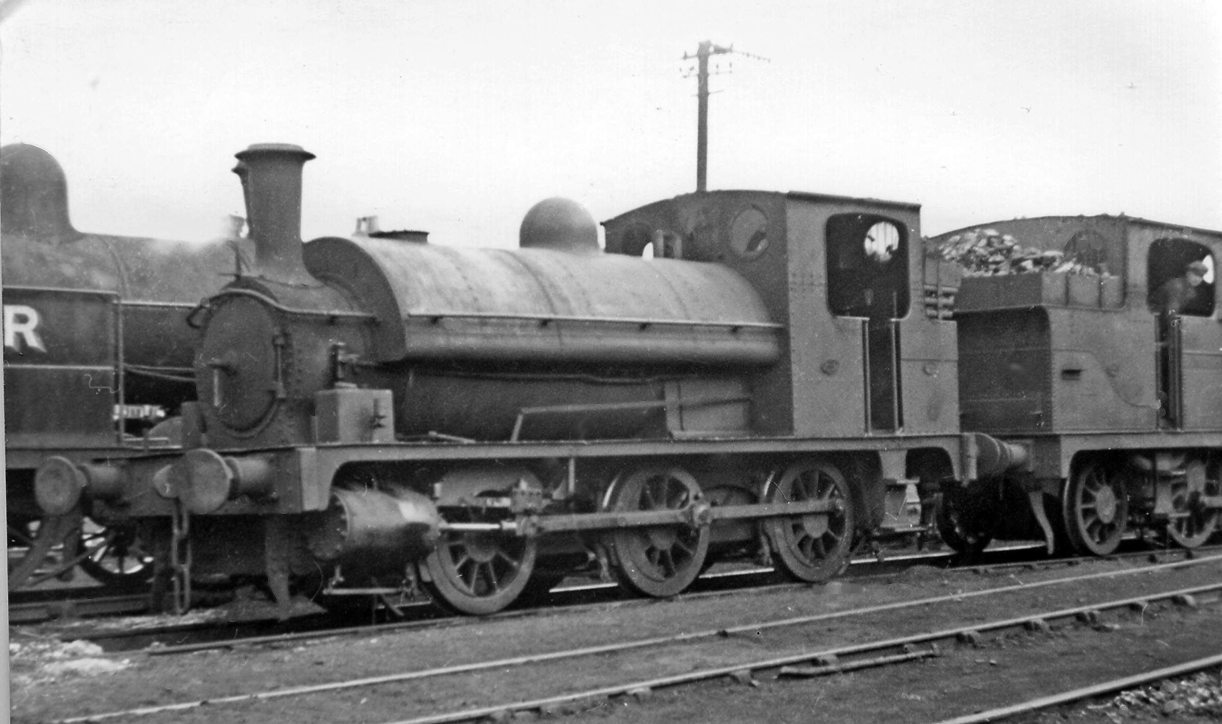 Ex-Great Central J62 0-6-0 Dock Tank at Wrexham Rhosddu Locomotive Depot. View in the depot Yard, amongst an interesting selection of locomotives employed on this part-Welsh outpost of the LNER (ex-GC, ex Wrexham, Mold & Connah's Quay) network. No. 8201 normally worked on the Docks lines at Connah's Quay. Wrexham Rhosddu Depot in 1947 had an allocation of 29 engines, comprising:- 4 0-6-0, 5 4-4-2T, 11 0-6-2T, 7 0-6-0T and 2 0-4-0T, all being ex-GC.